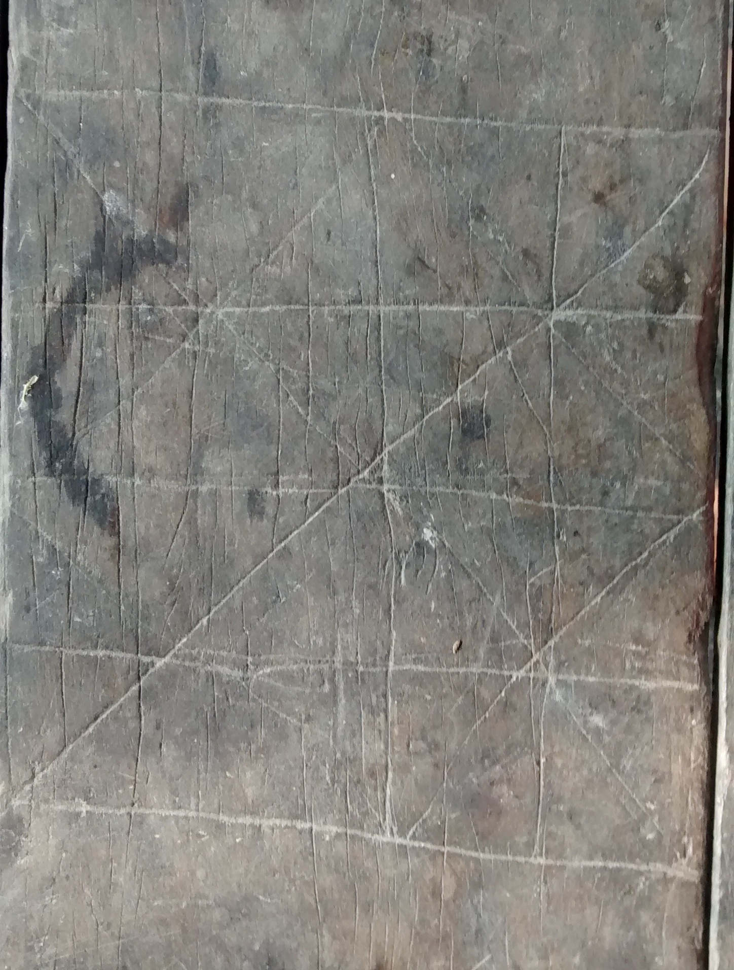 A line setup for Bagchal in a old wooden bench.